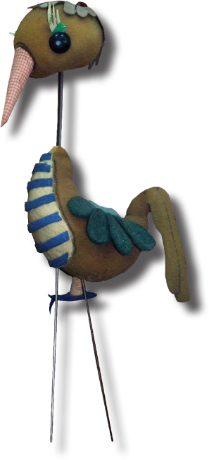 Bird, artwork by Šandor Hartig Srpski (latinica): Ptica, rad Šandora Hartiga Српски (ћирилица): Птица, рад Шандора Хартига